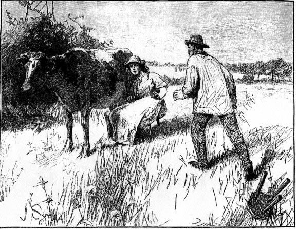 1891 illustration by Joseph Syddall for Tess of the d'Urbervilles.